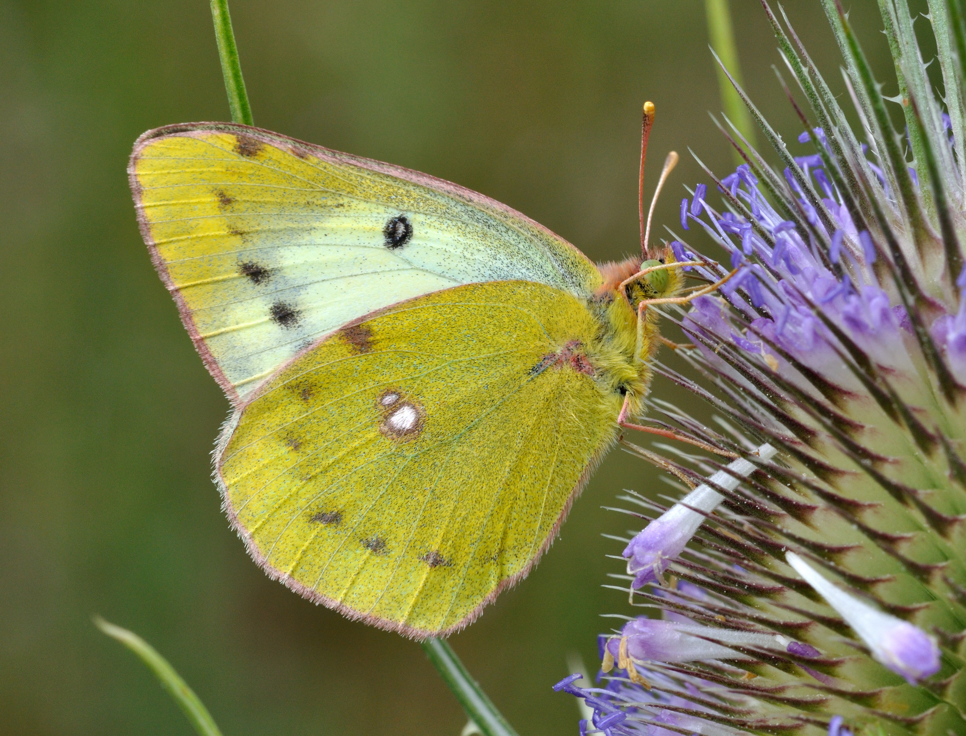 Female Pale Clouded Yellow (Colias hyale) near the old airstrip, Frankfurt, Germany. Discerned from C. sareptensis by habitat (wet meadow) and relatively sharp rounded forewings.